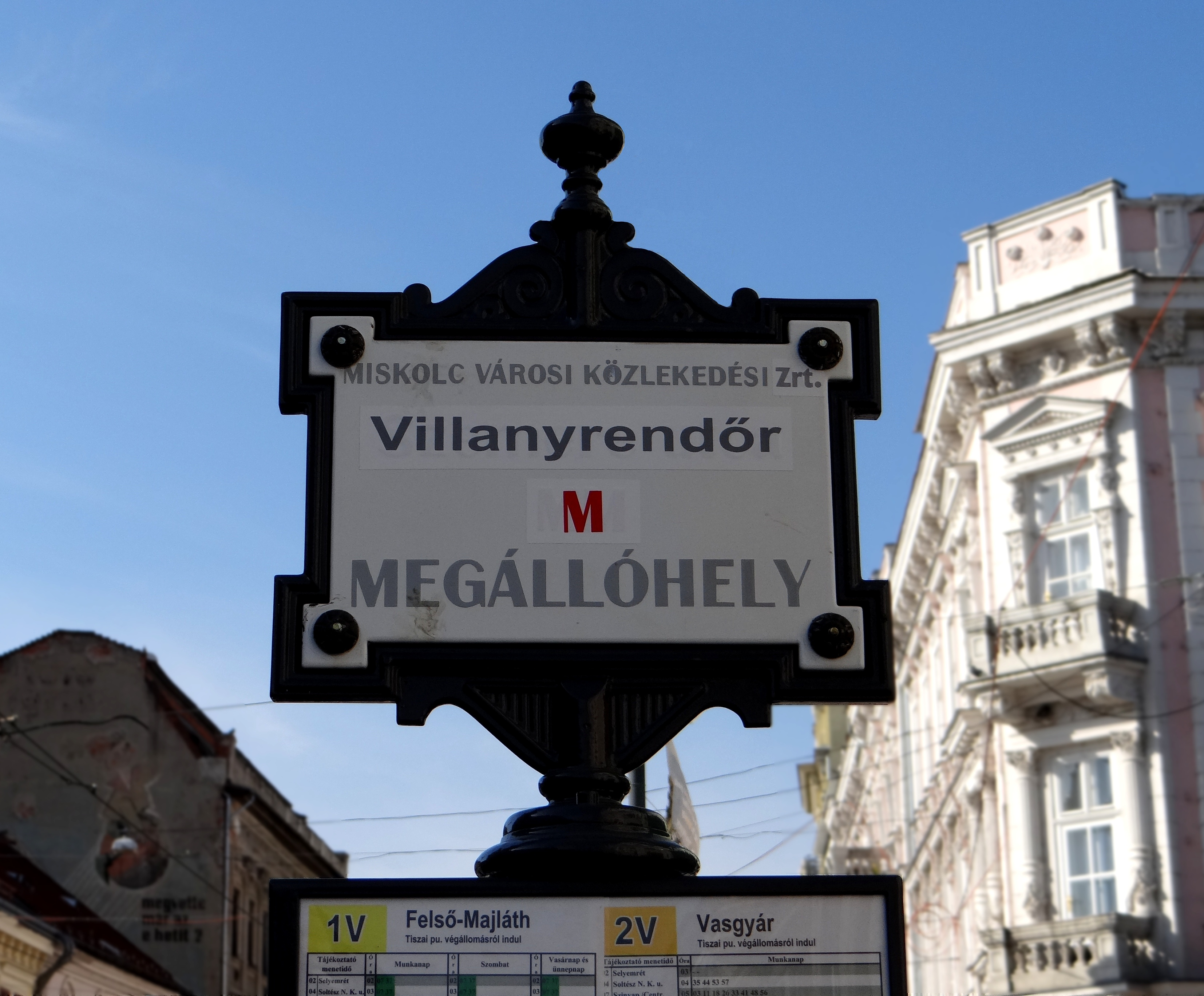 Tram stop table, Villanyrendőr, Miskolc, Hungary